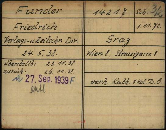 Registration card of Friedrich Funder as a prisoner at Dachau Nazi Concentration Camp.